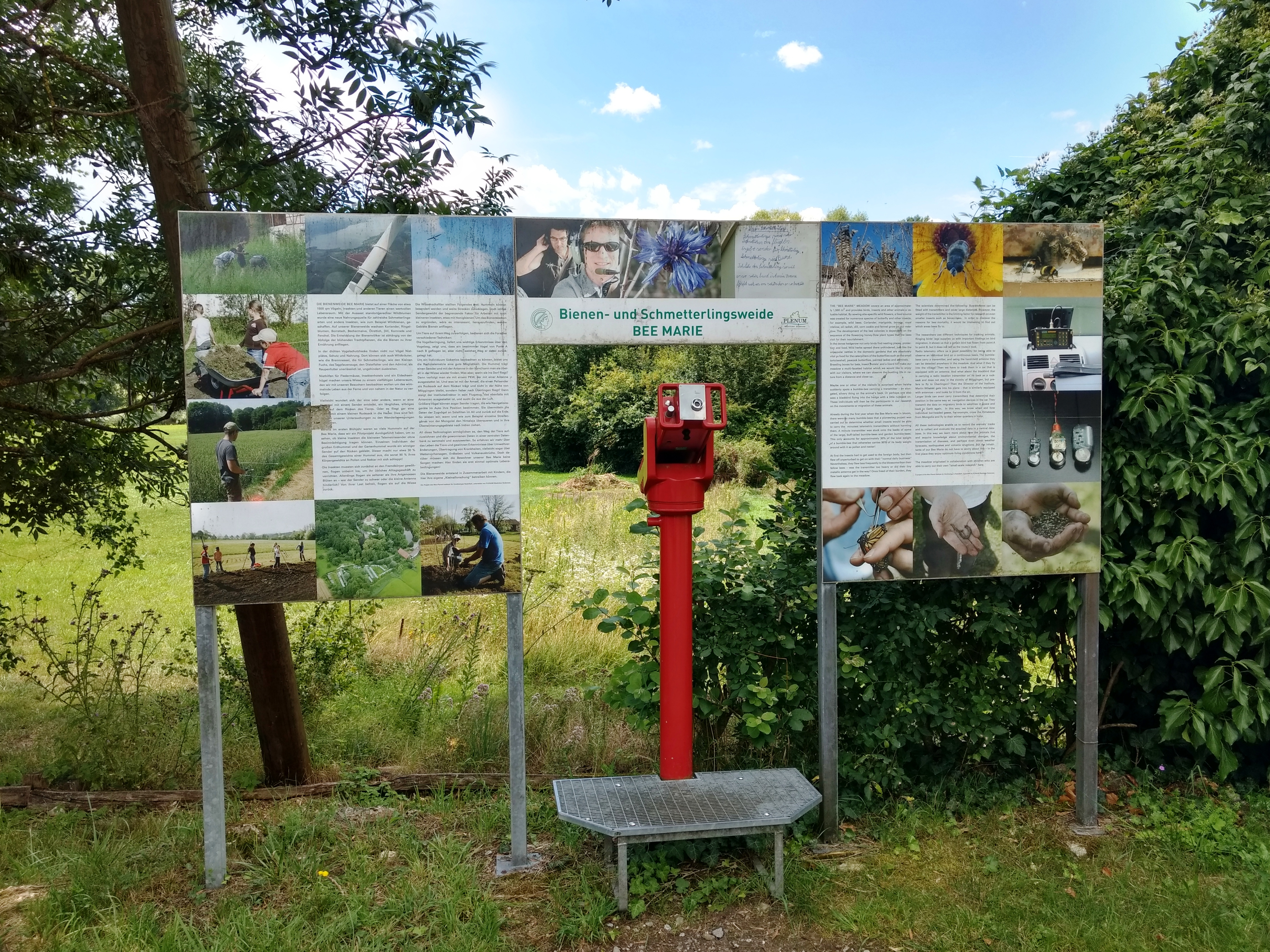 Telescope and information board about the animal habitat near the institute